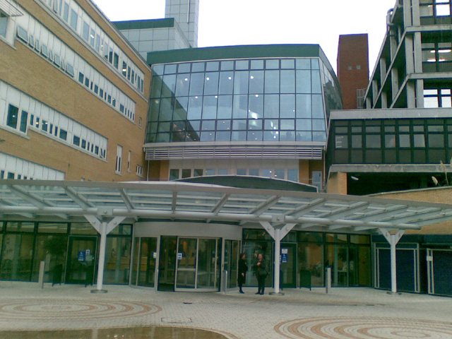 Whittington Hospital Magdala Avenue N19 5NF Hospital Main Entrance